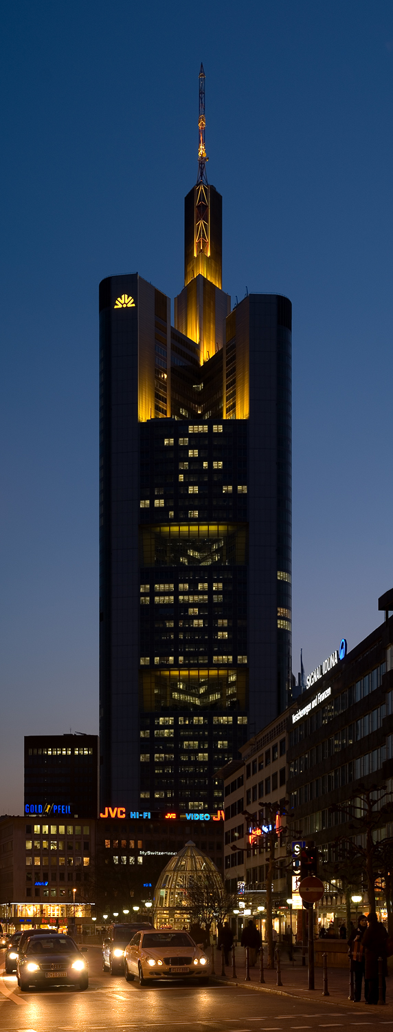 Commerzbank-Tower at blue hour